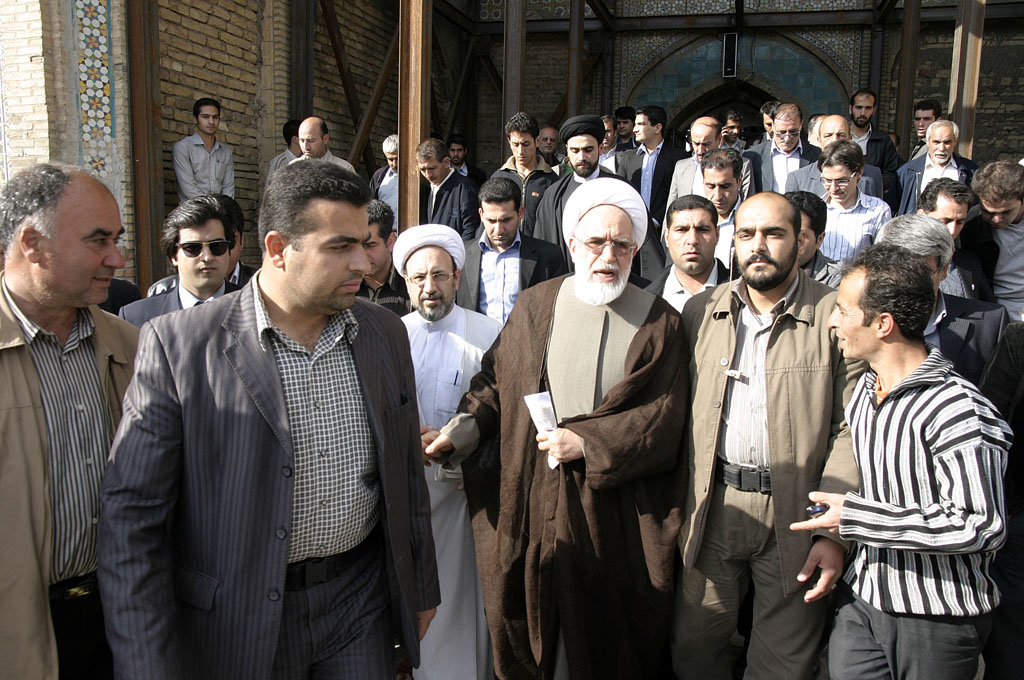 Mehdi Karrubi lecturing in Zanjan